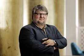 An Artist